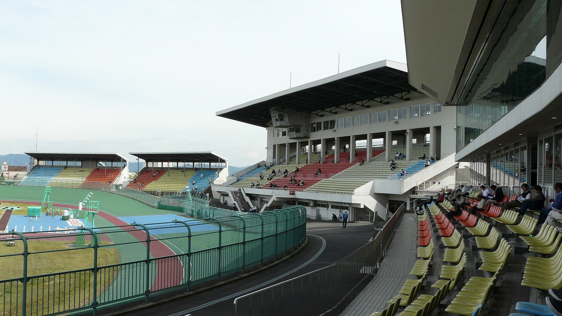 Mukomachi-keirin-3